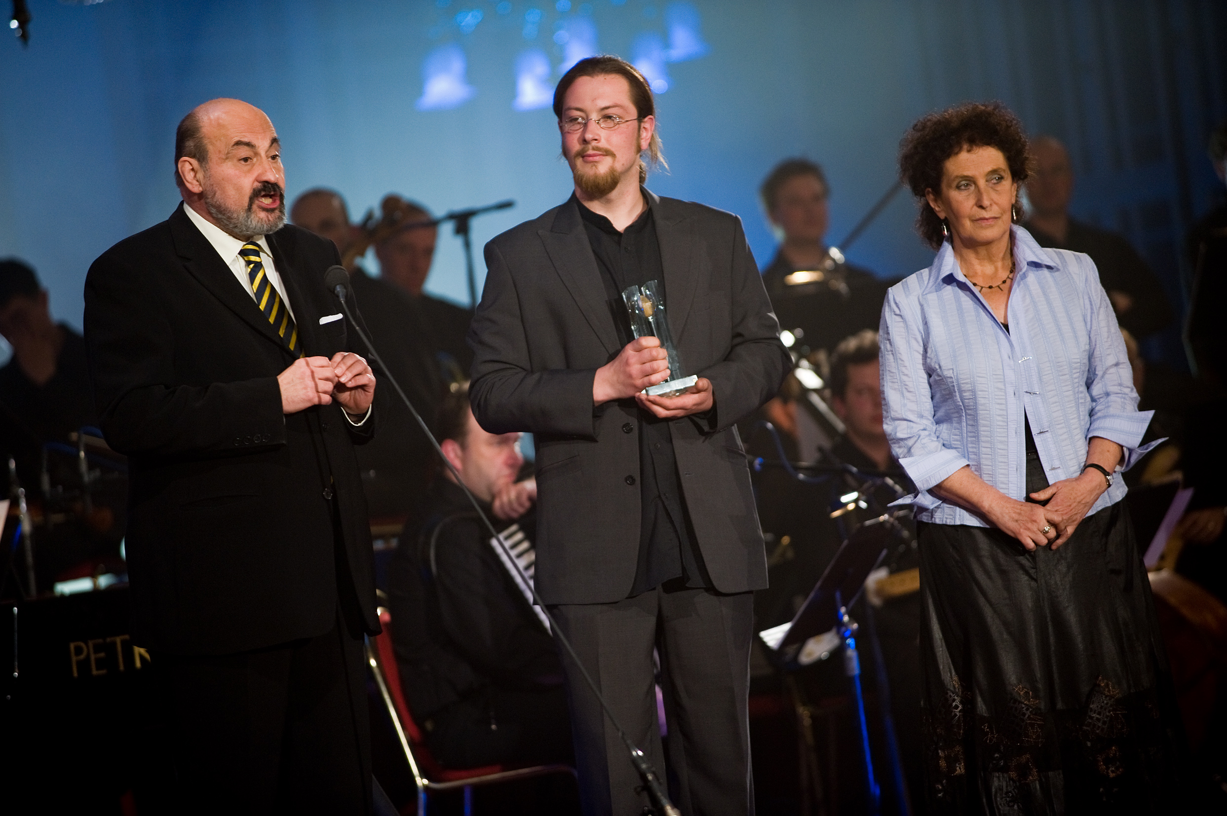 Ondřej Beránek with Tomáš Halík and awardee Věra Roubalová Kostlánová at the award ceremony Ceny Paměti národa 2010